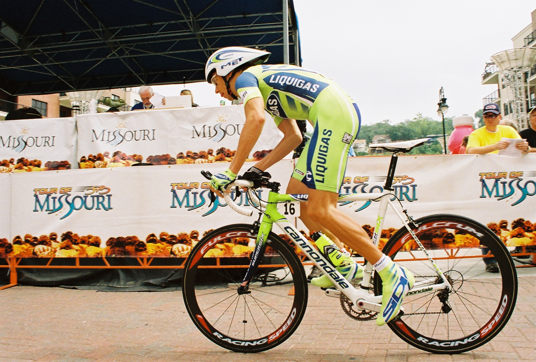 ToM08 Individual Time Trial Branson, MO - Matej Mugerli Liquigas